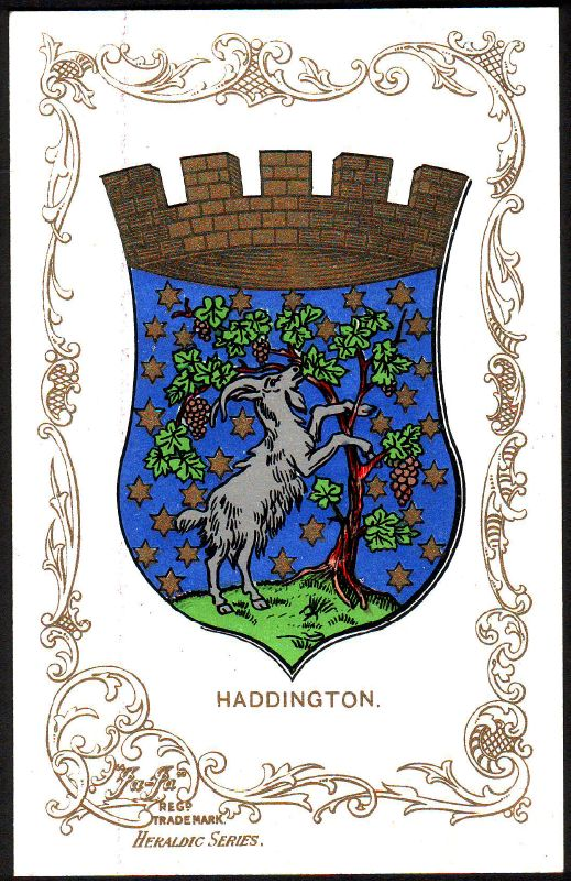 Haddington from Ja Ja postcard from Heraldic Series